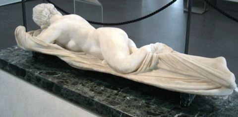 An image of the 'reclining hermaphrodite', a 1st-century BC sculpture from the collection of the Museo Nazionale de Roma's Palazzo Massimo Alle Terme. I took the photograph myself.